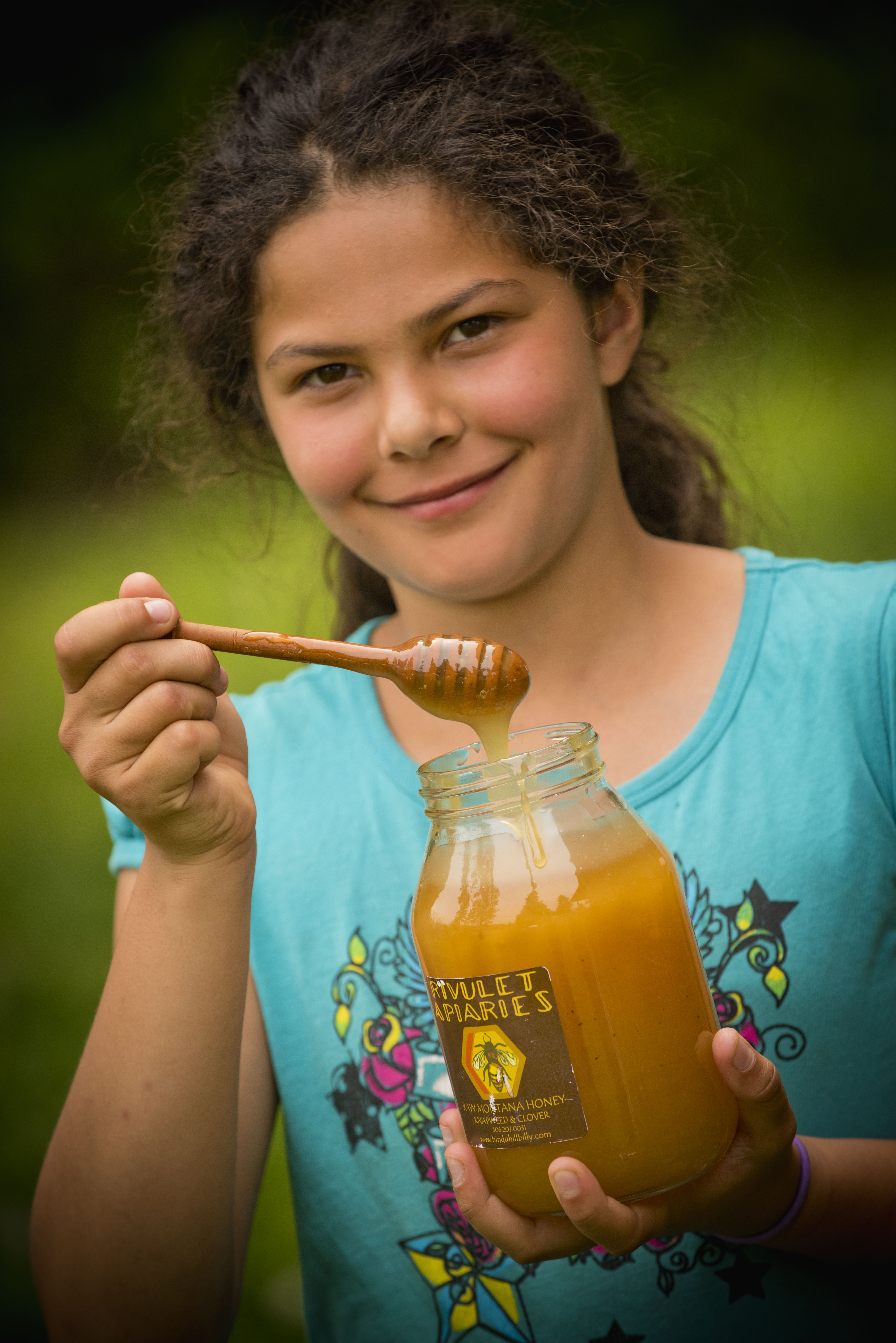 Sujatha Bay's family owns Rivulet Apiaries and Hindu Hillbilly Farms near Rivulet, Mont. NRCS worked with the Bays to combat future declines in honey bee populations by helping them to implement conservation practices that provide forage for honey bees while enhancing habitat for other pollinators and wildlife and improving the quality of water, air and soil. June 2017. Mineral County.